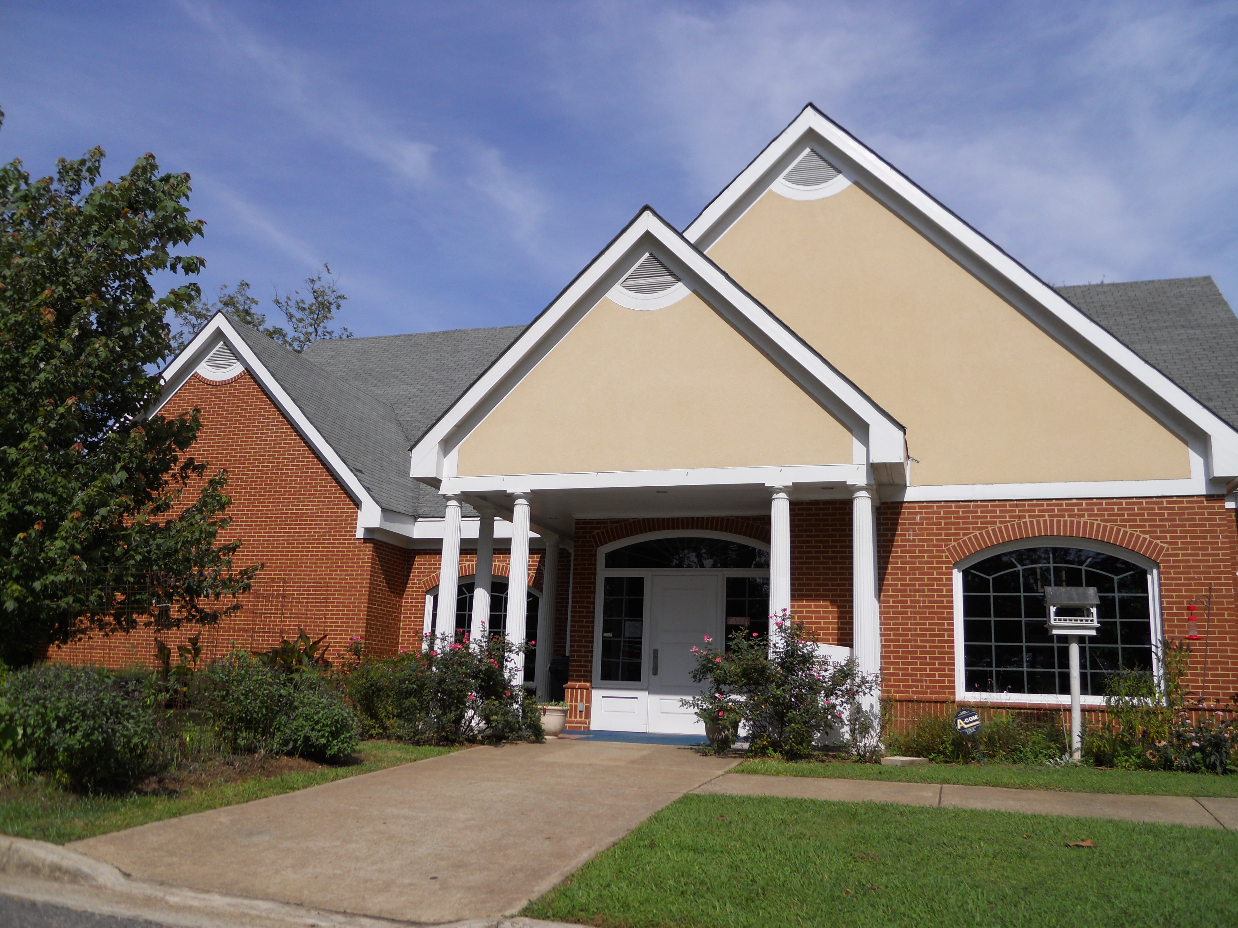 This is a photograph of the Harris County Public Library located in Hamilton, Georgia.